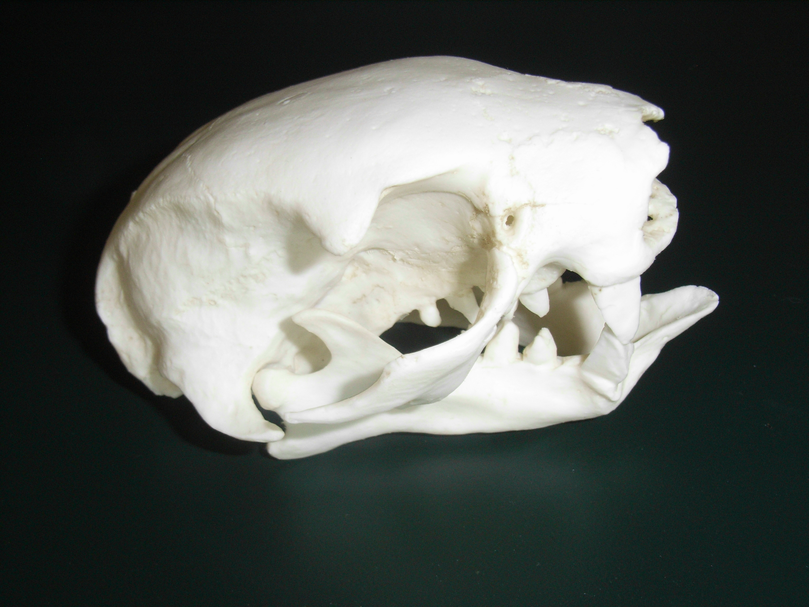 C.hoffmanni (Two-toed Sloth)Skull.